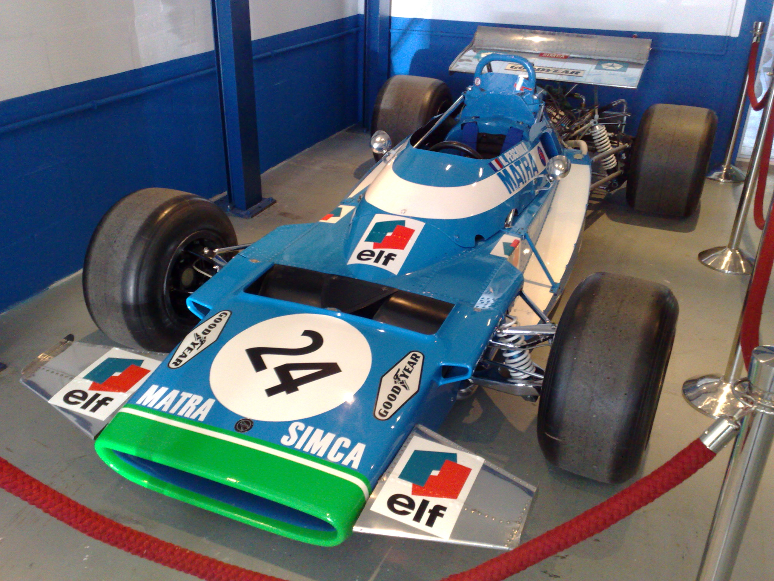 Matra MS120-02 Formula-1 car, driven by Henri Pescarolo and Chris Amon. This car won the Argentinian GP on January 24, 1971 (with Chris Amon behind the wheel). Bought by a Matra enthusiast, here on display at a Matra workshop in Leerdam, The Netherlands.